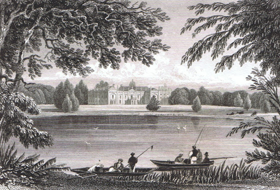 Combermere Abbey and Comber Mere. Engraving from Views of the seats of noblemen and gentlemen, in England, Wales, Scotland, and Ireland. Volume 5 (1829)